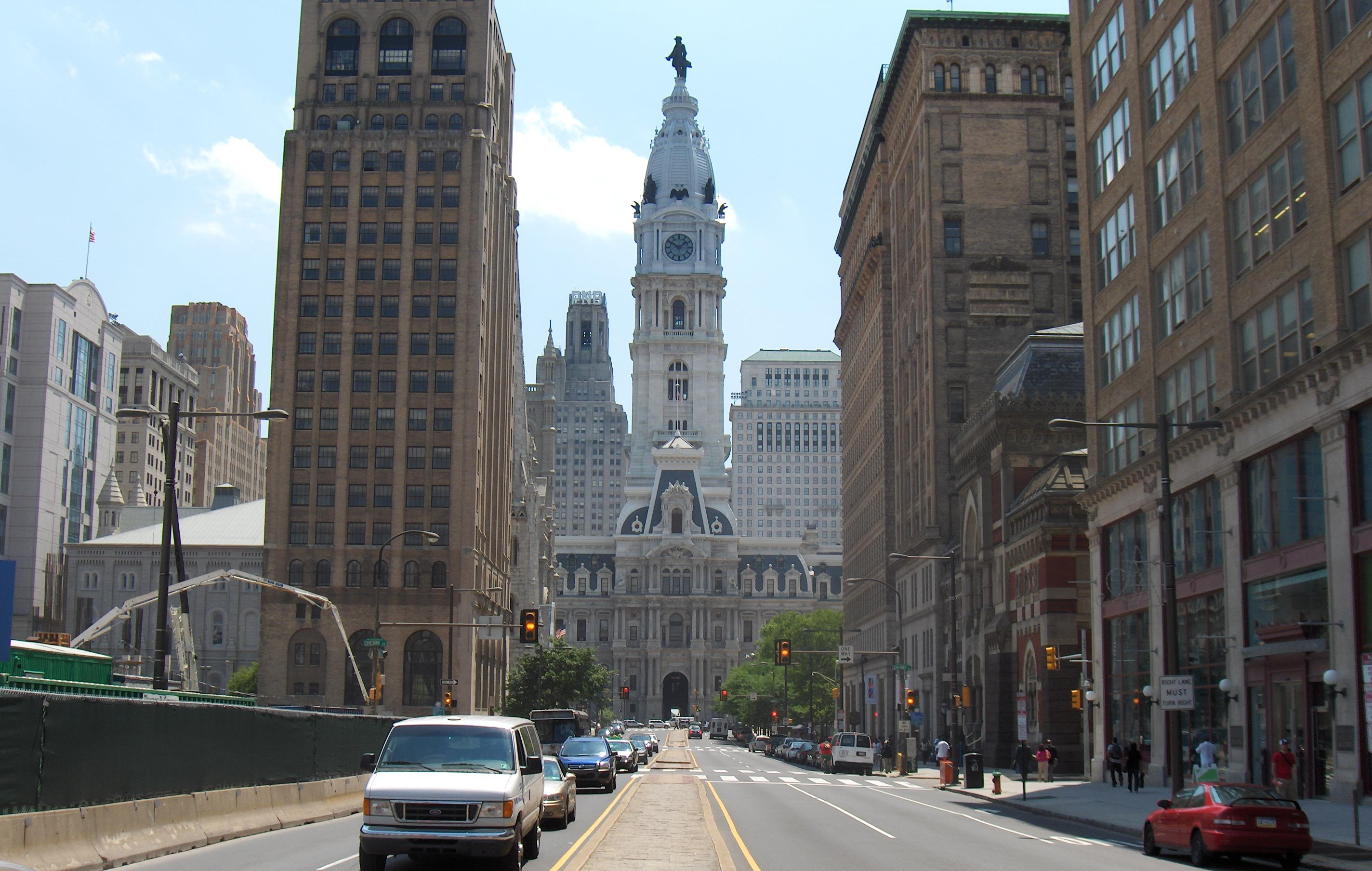 North Broad Street, Philadelphia, PA 19102, 100 block, looking south from Race Street, with Philadelphia City Hall (1874-1901) in the center.